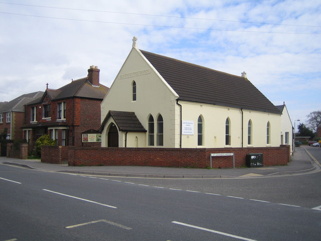 Hayling Island: Elim Pentecostal Church. At the junction of St Leonard's Avenue with Elm Grove, the plaque in the gable end of the roof reads "Elm Grove Free Church".